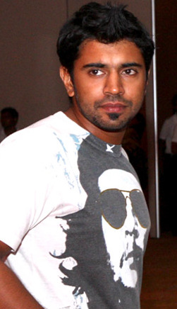 Bhavna snapped at CCL2 party, Vizag, India, 2011.